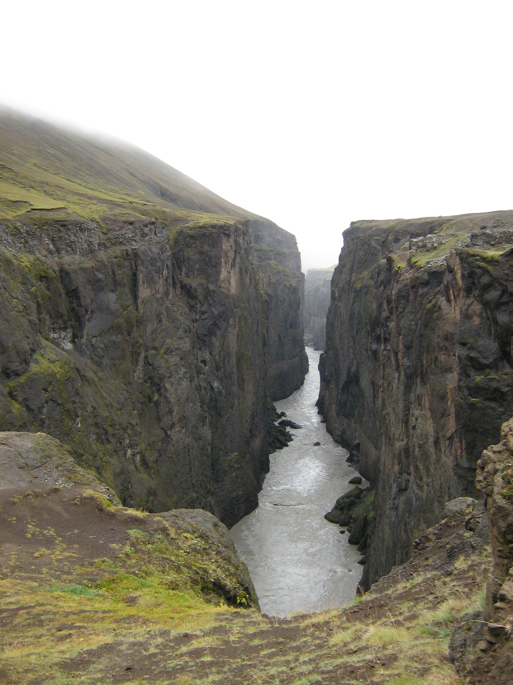 The canyons of Hafrahvammar.